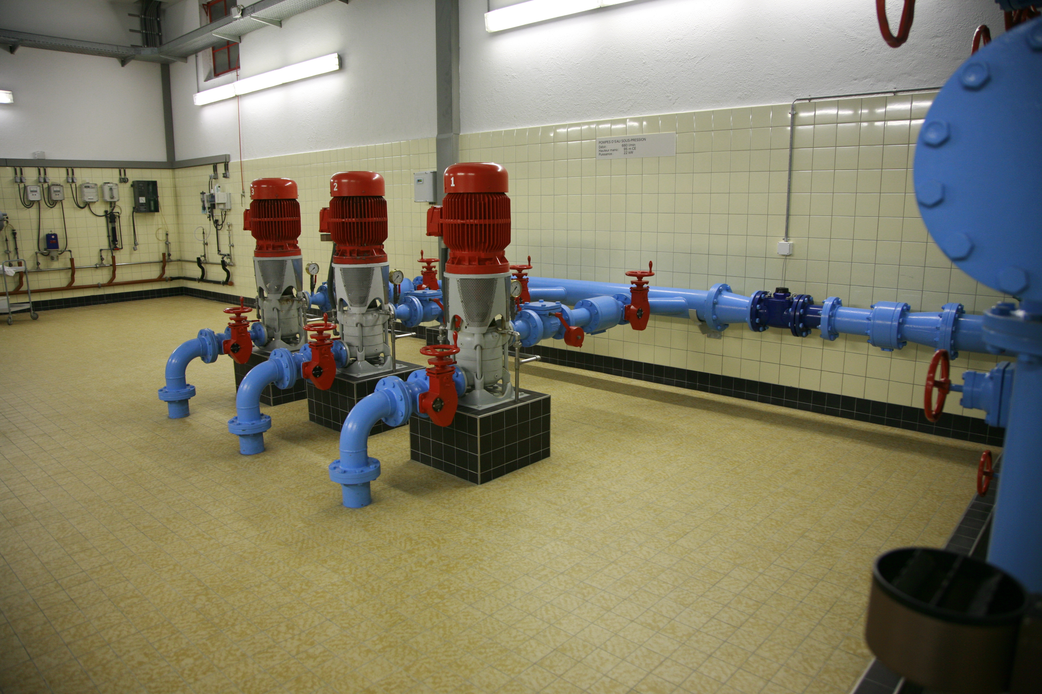 Water purification systems a Bret lake, Switzerland